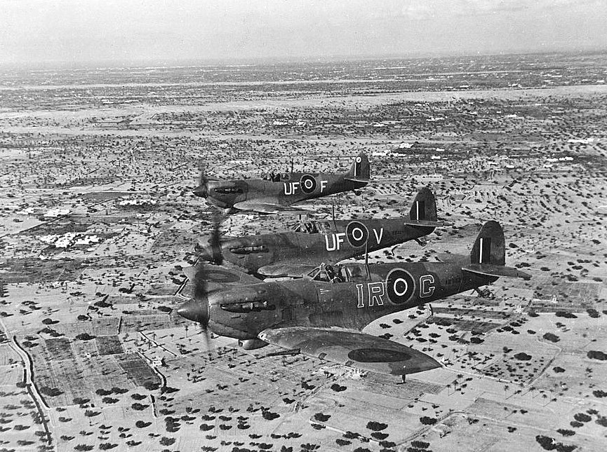 Three Royal Air Force Supermarine Spitfire Vb on a patrol over Djerba Island, off Gabes, on their way to the Mareth Line area in early 1943. The planes "UF-V" and "UF-F" belonged to 601 Squadron. The plane "IR-G" (s/n AB502) in the foreground was the personal plane of Ian Richard Gleed, DFC, Wing Commander of No. 244 Wing. On 16 April 1943 Gleed was killed in a fighter sweep in the Cap Bon area. He was shot down in his Spitfire by German Messerschmitt Bf 109Gs from JG 77.